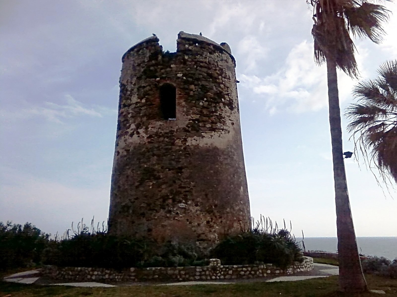 Torre Muelle watchtower, Benalmádena, Málaga, Spain